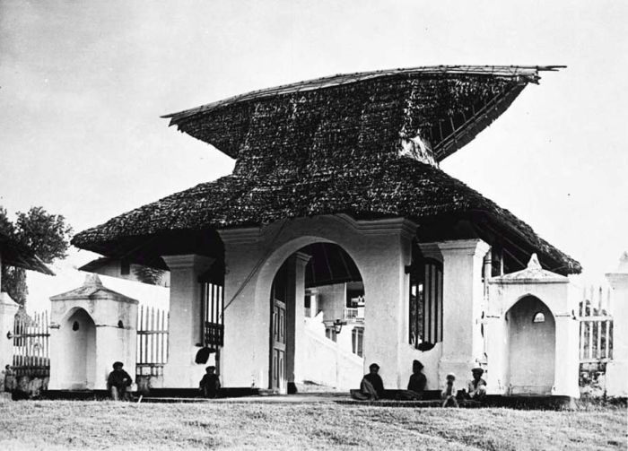 Entrance to the palace of the sultan of Ternate